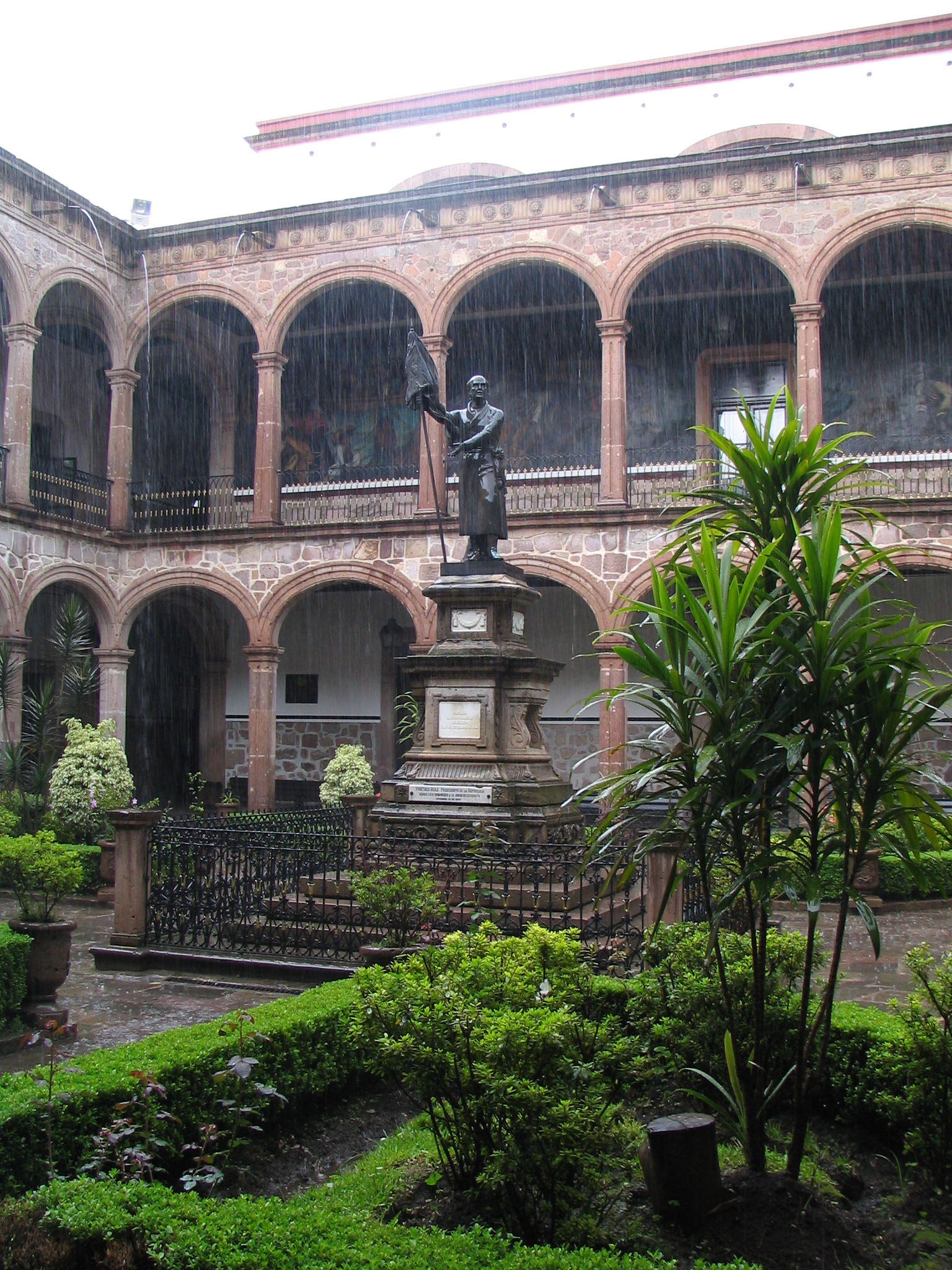 Established in Pátzcuaro in 1540 and later moved to Morelia, the "San Nicolás de Hidalgo National and Primitive College" was the first higher education institution in México. The statue is dedicated to Miguel Hidalgo, who was dean of the college and Father of the Homeland.